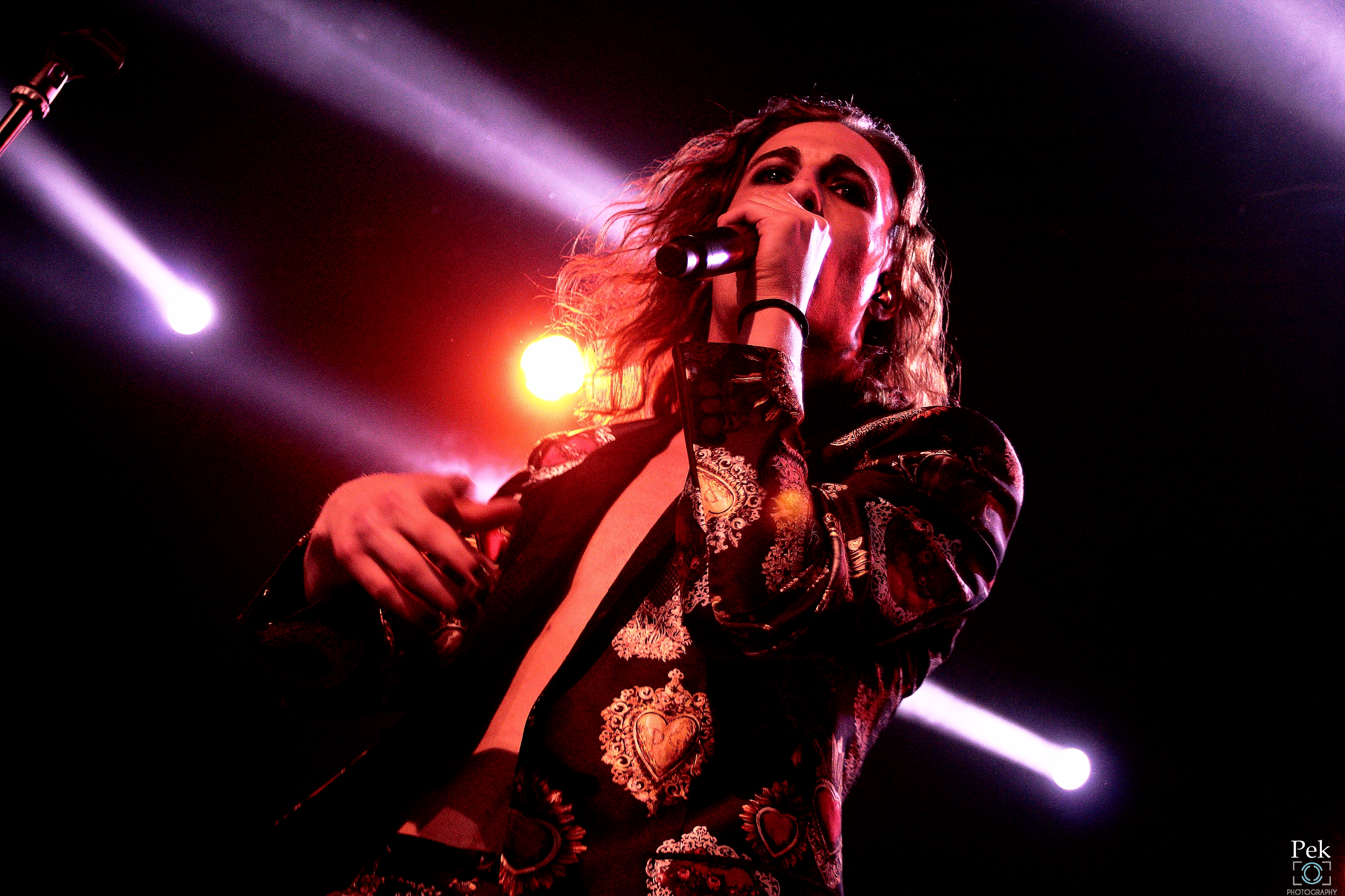 Damian David performing with his band Måneskin at the Teatro Quirinetta in Rome on 7 April 2018